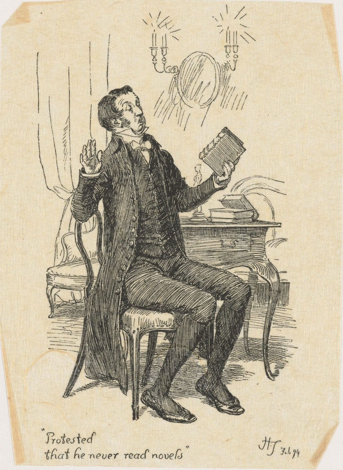 "Protested that he never reads novels", original illustration by Hugh Thomson (1860-1920) for Pride and Prejudice by Jane Austen, 1894. Typ 805.94.8320, Houghton Library, Harvard University